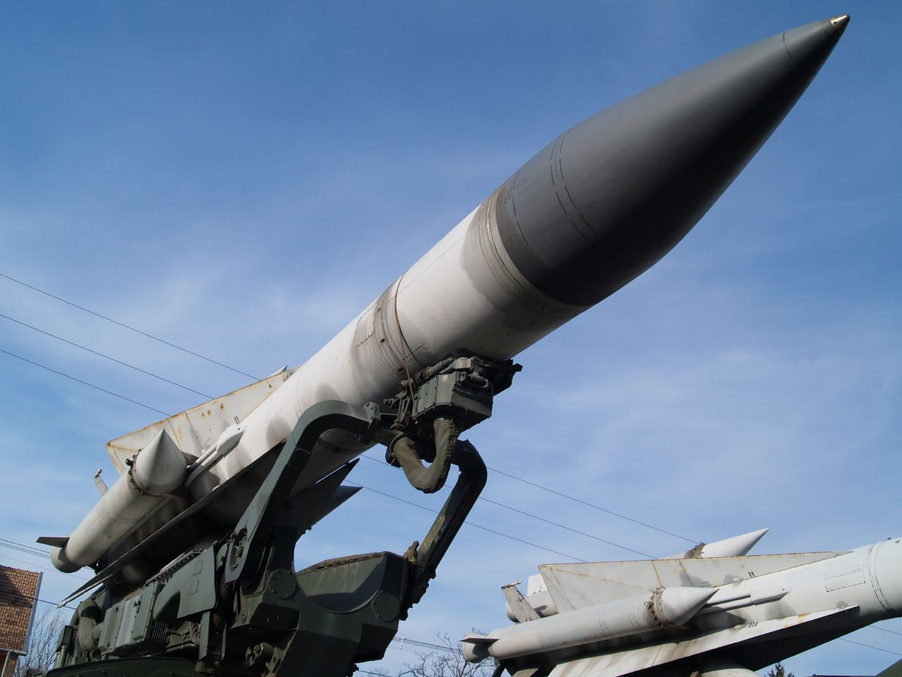 A Soviet-built S-200 surface-to-air missile (NATO reporting name SA-5 Gammon) in the hungarian military museum Kecel hadtörténeti park.